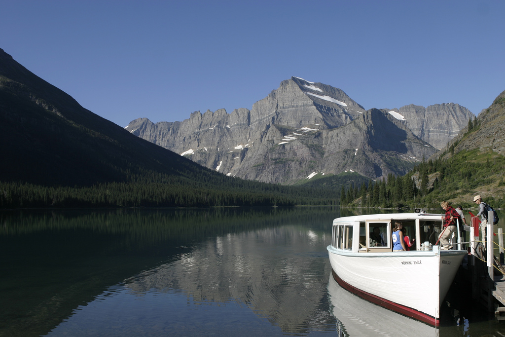 Boat on lake Josephine, Glacier national park, Montana, USA